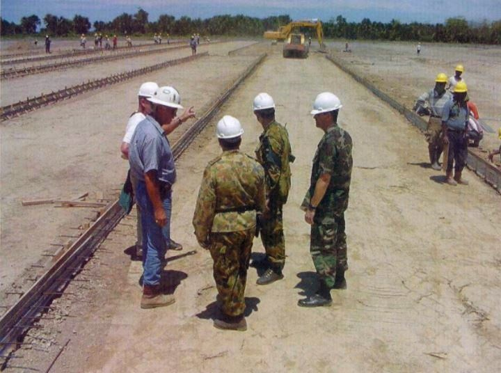 US and Australian Army personnel and civilian contractors survey construction of a helipad complex at Comoro Airfield in Dili. The LOGCAP engineering subcontractor, Fluor-Daniels, had to create a cement production facility from scratch in order to build the helipad.